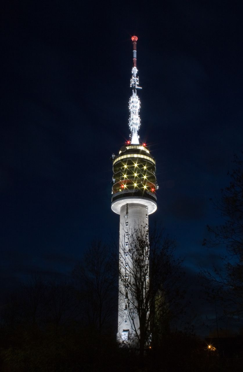 TV-tower of Goes by night. A first trial shot with the tripod I bought today. In normal daylight I turn my back on this building, but as soon as the night falls something happens.